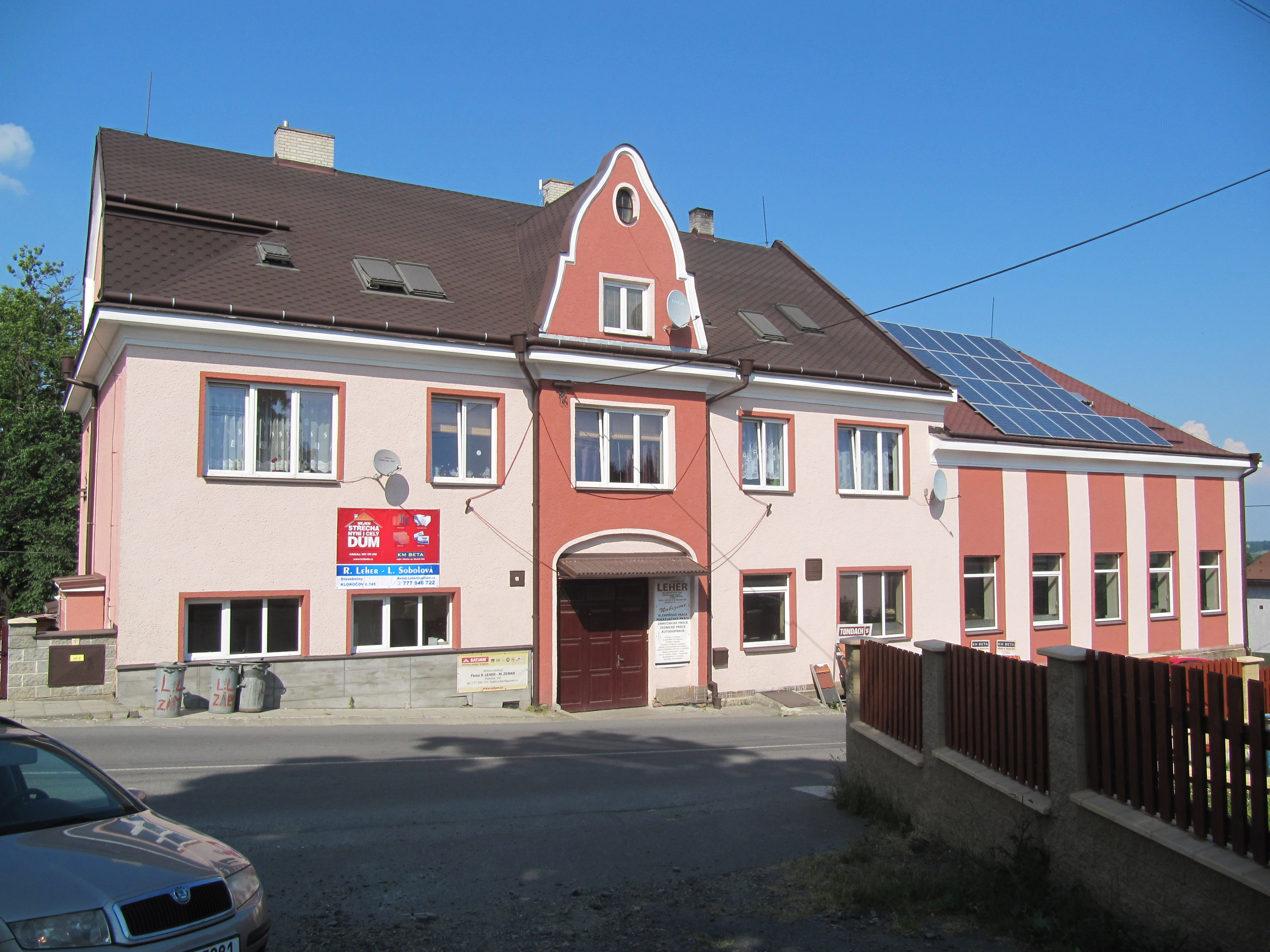 Vítkov, Opava District, Czech Republic, part Klokočov.